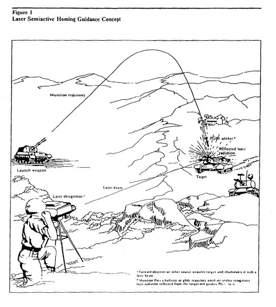 Diagram showing "laser semiactive homing guidance concept", using a laser to guide an artillery round onto a target.